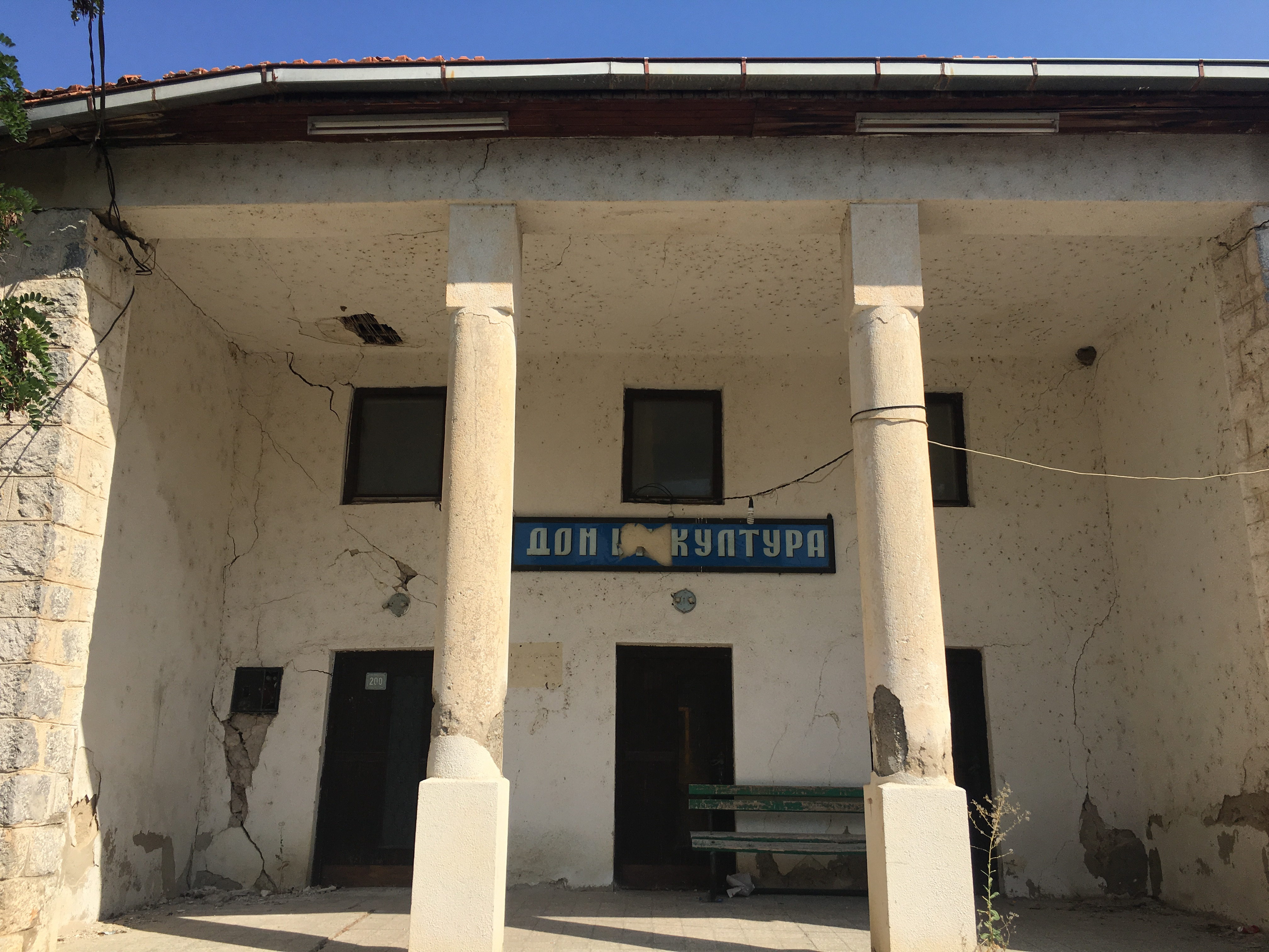 The former house of culture in the village of Ljubaništa